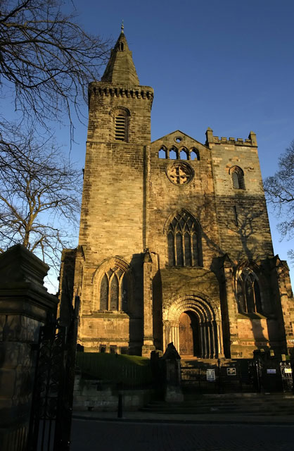 Dunfermline Abbey. Photo of the main entrance, taken on a fine winter evening from the entrance to the gardens.